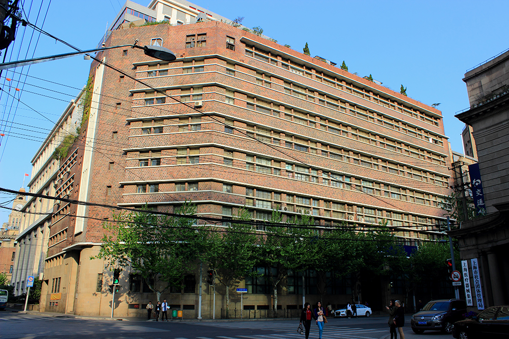 Former Chekiang First Bank, Shanghai